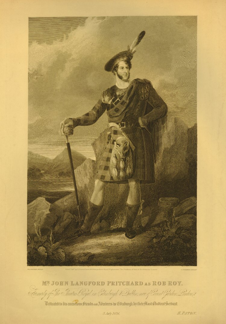 Portrait of Mr John Langford Pritchard as Rob Roy